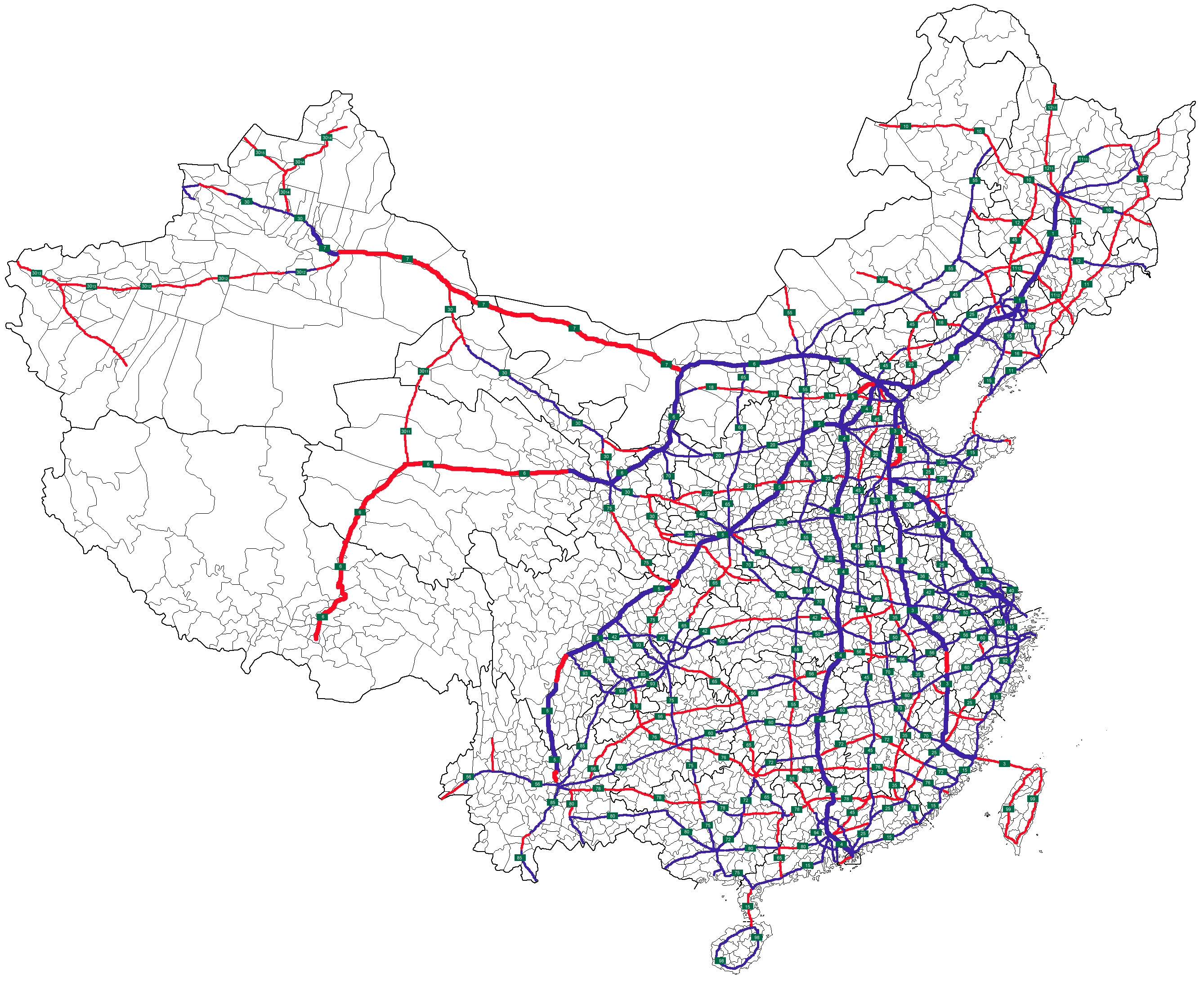 Map of NTHS Expressways of China operational under construction/planned